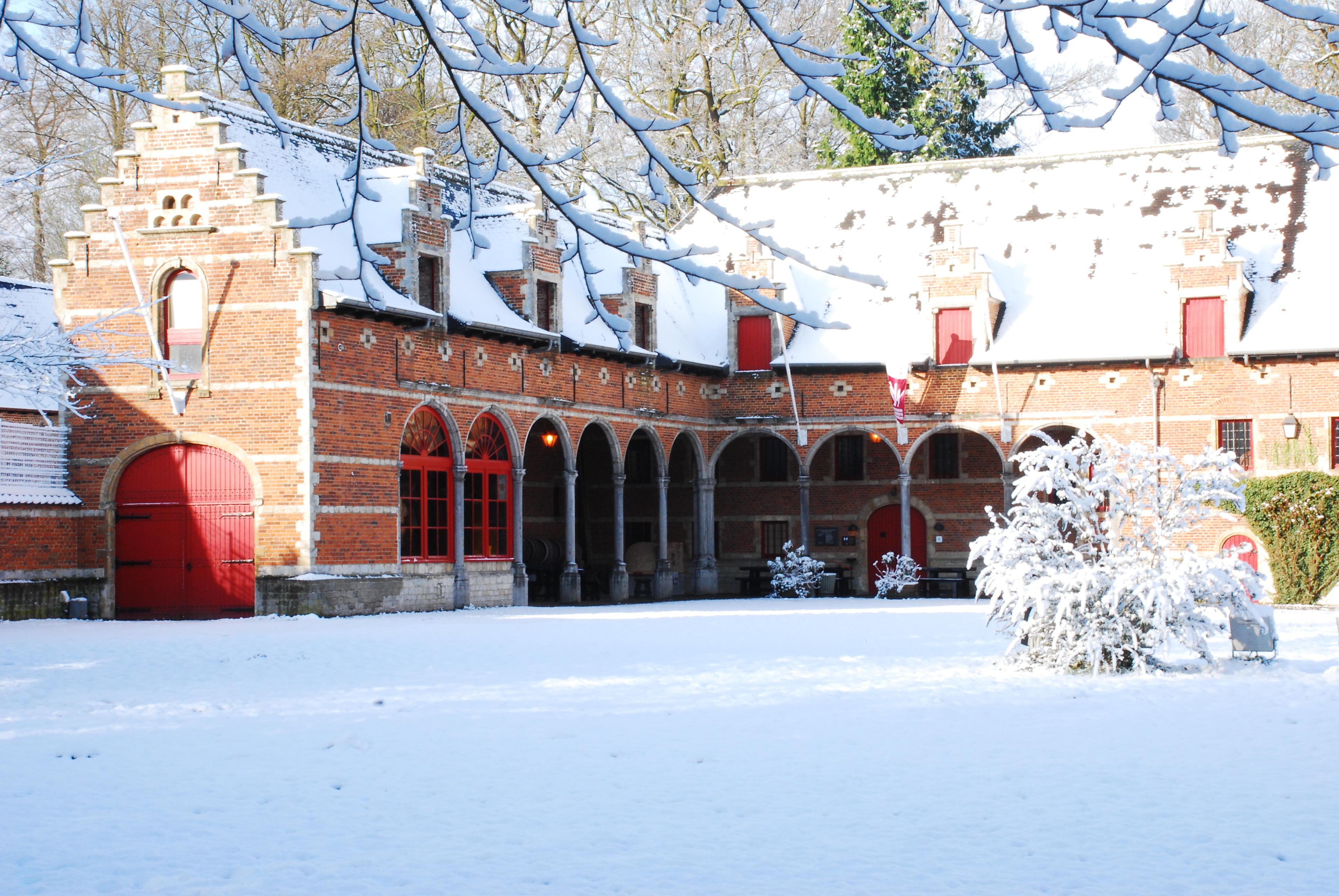 Guldendal in the snow